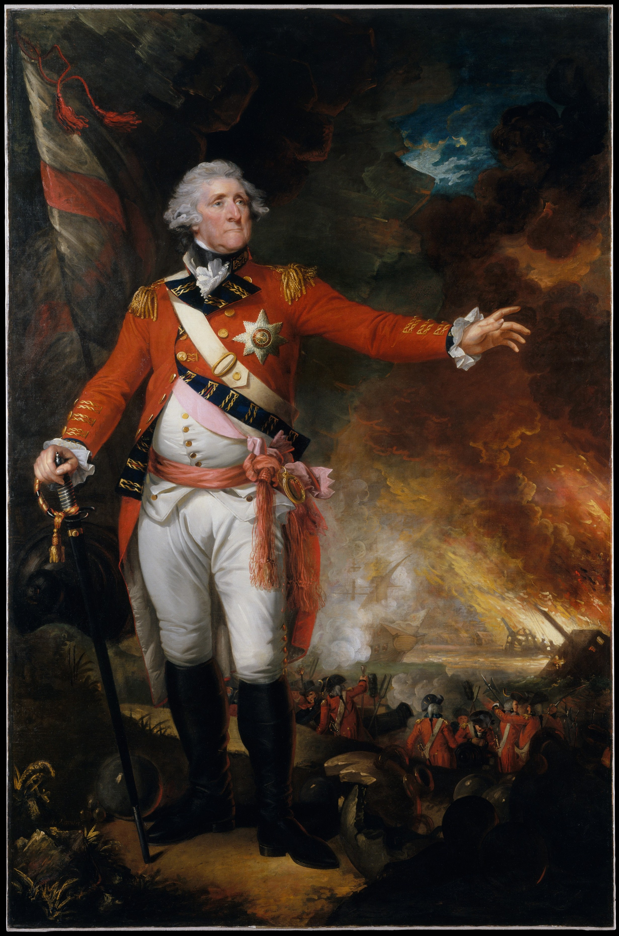 Brown’s grand-manner portrait of General George Eliott (1717–1790) is a great spectacle that captured both the painter and his subject at the pinnacle of their respective careers. Descended from America’s earliest settlers, Brown grew up in Boston and trained in London under Benjamin West. General Eliott commanded the British garrison against the allied Spanish and French forces at Gibraltar (1779–83). The pyrotechnic portrait shows Eliott during a battle in September 1782, when the British deployed the newly devised technique of heated shot, annihilating the enemy fleet.